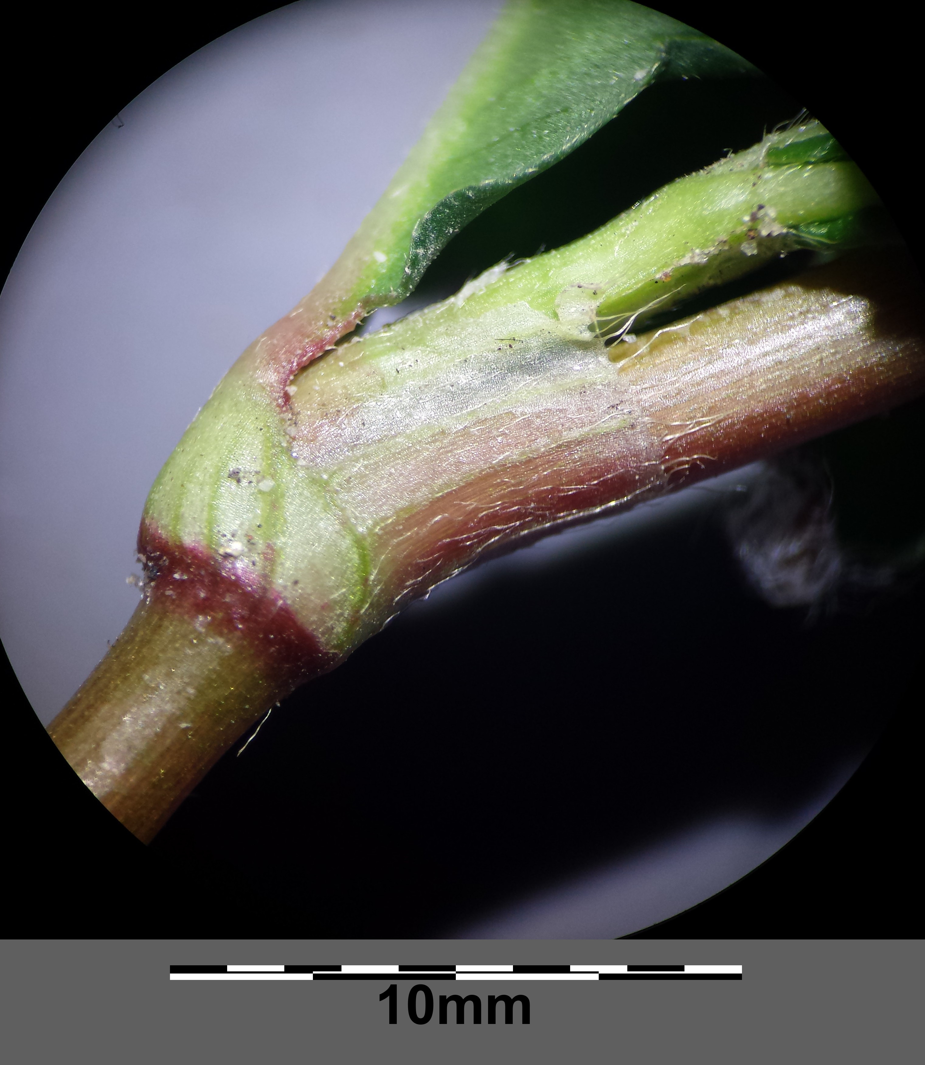 Stem with ciliate ochrea Taxonym: Persicaria maculosa ss Fischer et al. EfÖLS 2008 ISBN 978-3-85474-187-9 Location: Leopoldau, Vienna-Floridsdorf - ca. 160 m a.s.l. Habitat: gap in road surface